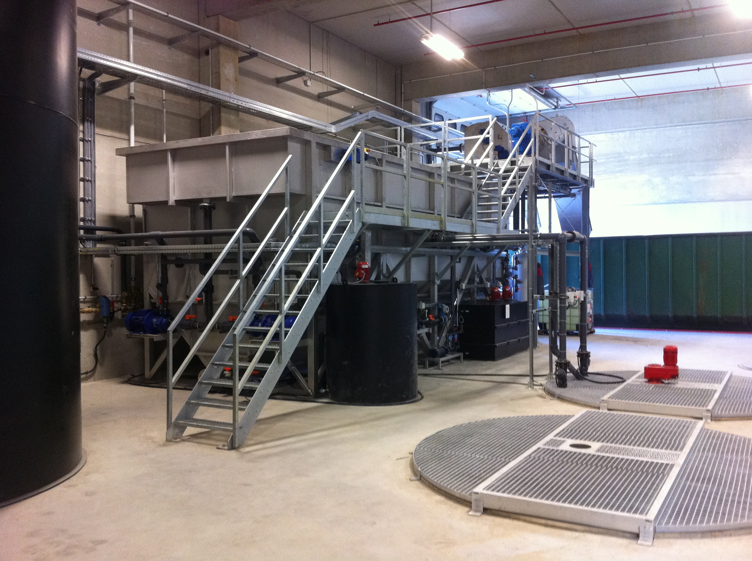 Stainless Steel, Rectangular